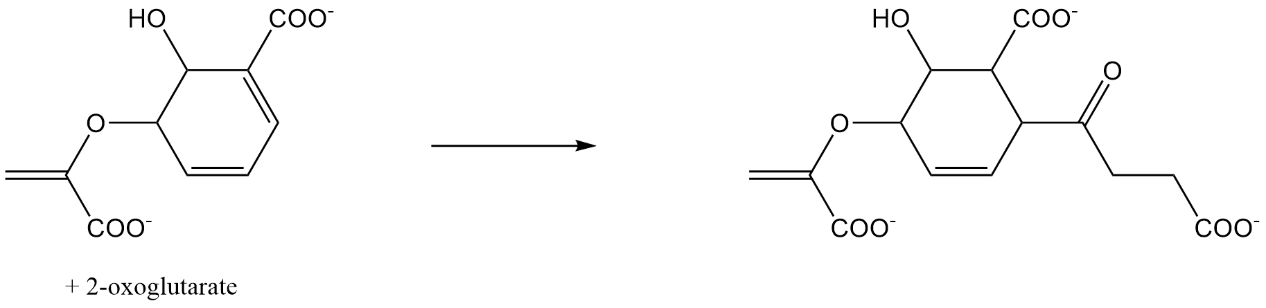 MenD reaction